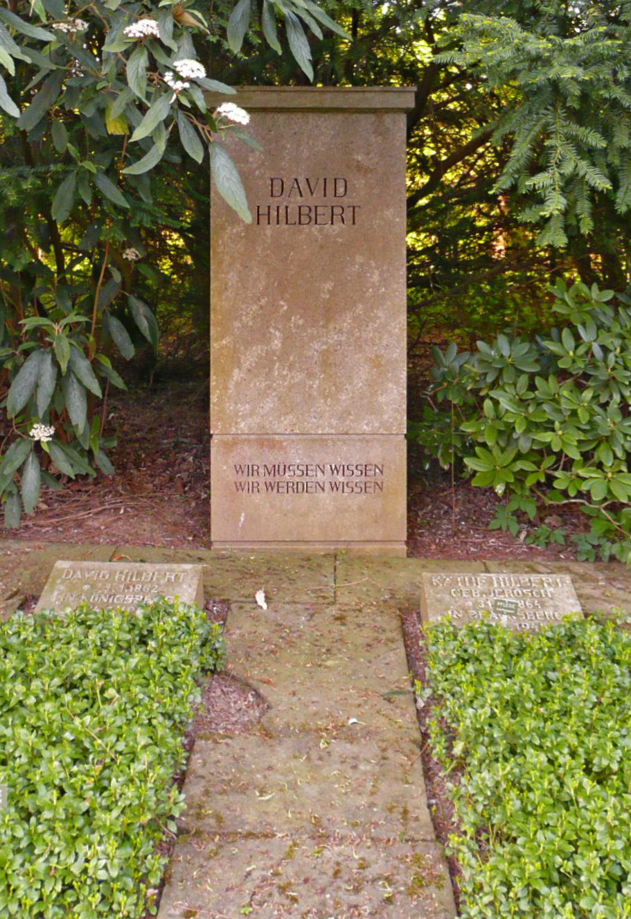 Tomb of David Hilbert in Goettingen